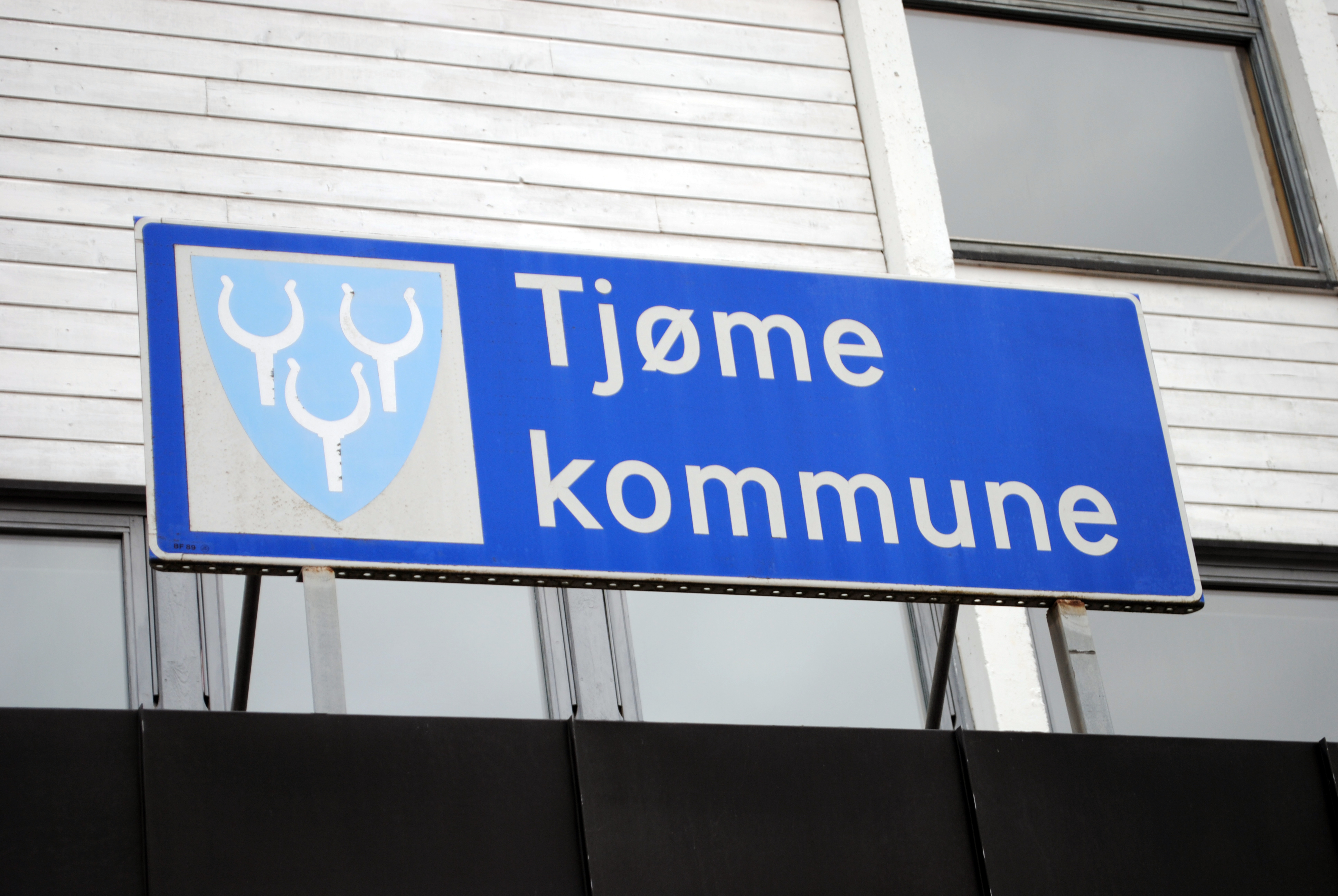 Sign of Tjøme Municipality, which existed until it merged with Nøtterøy into Færder Municipality in 2018.